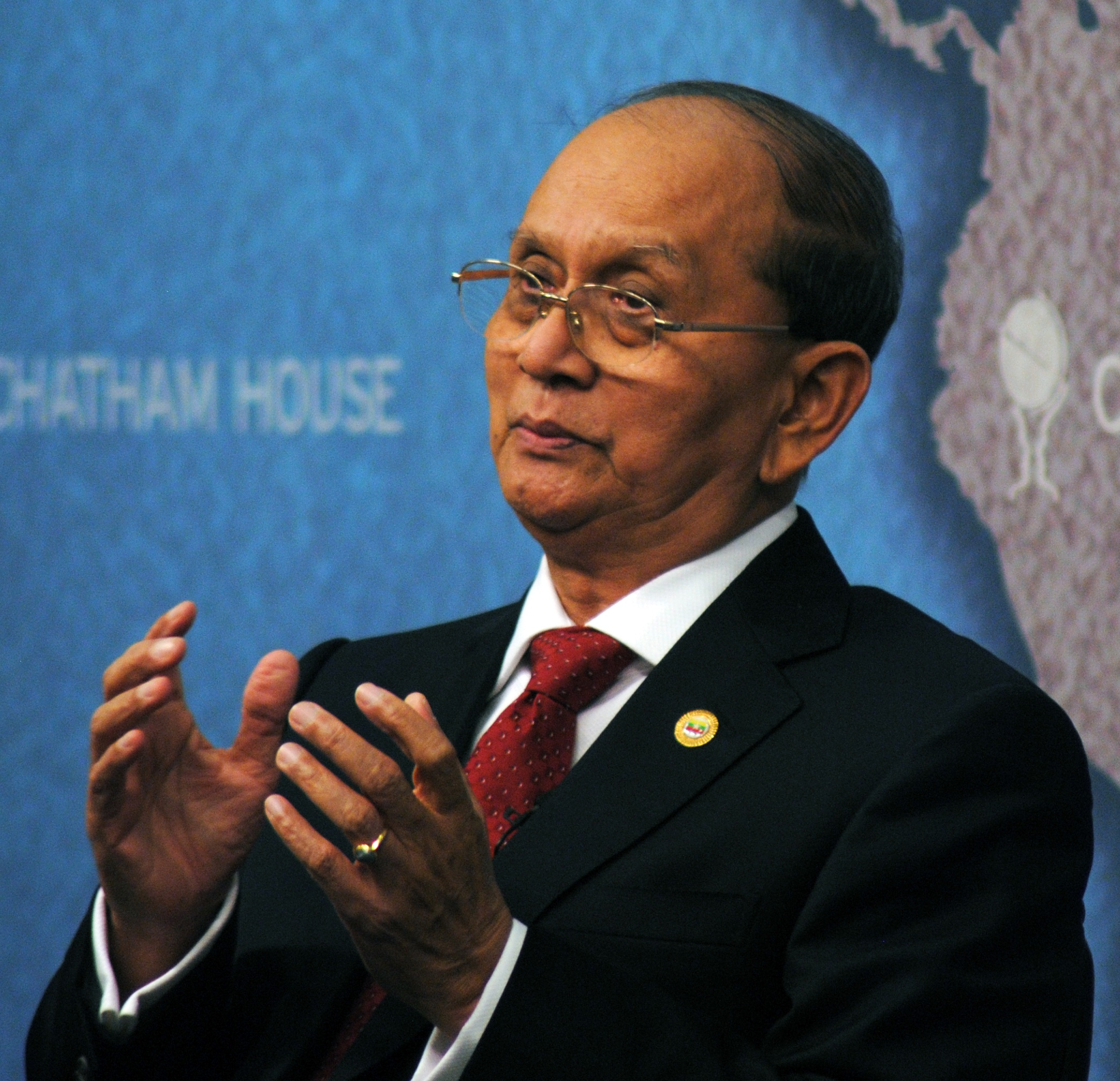 Myanmar's Complex Transformation: Prospects and Challenges, 15 July 2013 cht.hm/18jOCWM